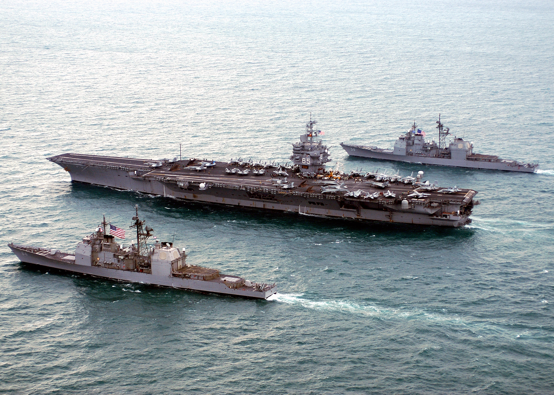 Arabian Gulf (Jan. 23, 2004) – The guided missile cruisers USS Philippine Sea (CG 58) and USS Gettysburg (CG 64) steam alongside USS Enterprise (CVN 65). The three ships are in the Arabian Gulf on a regularly scheduled deployment, conducting missions in support of Operation Iraqi Freedom and the continued war on terrorism. U.S. Navy photo by Photographer's Mate Airman Joshua E. Helgeson. (RELEASED)